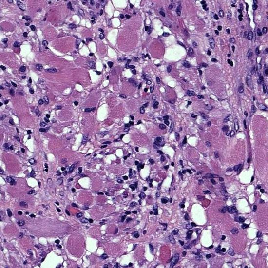 Photomicrograph (created from screen shot of digital whole slide image) of Fetal Rhabdomyoma, Intermediate (Cellular)-type.